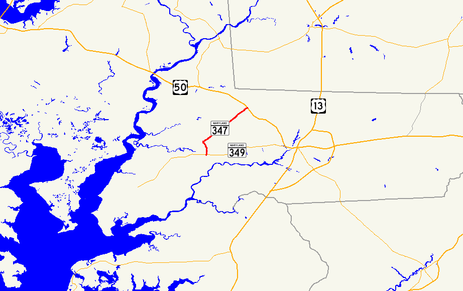 Map of Maryland Route 347